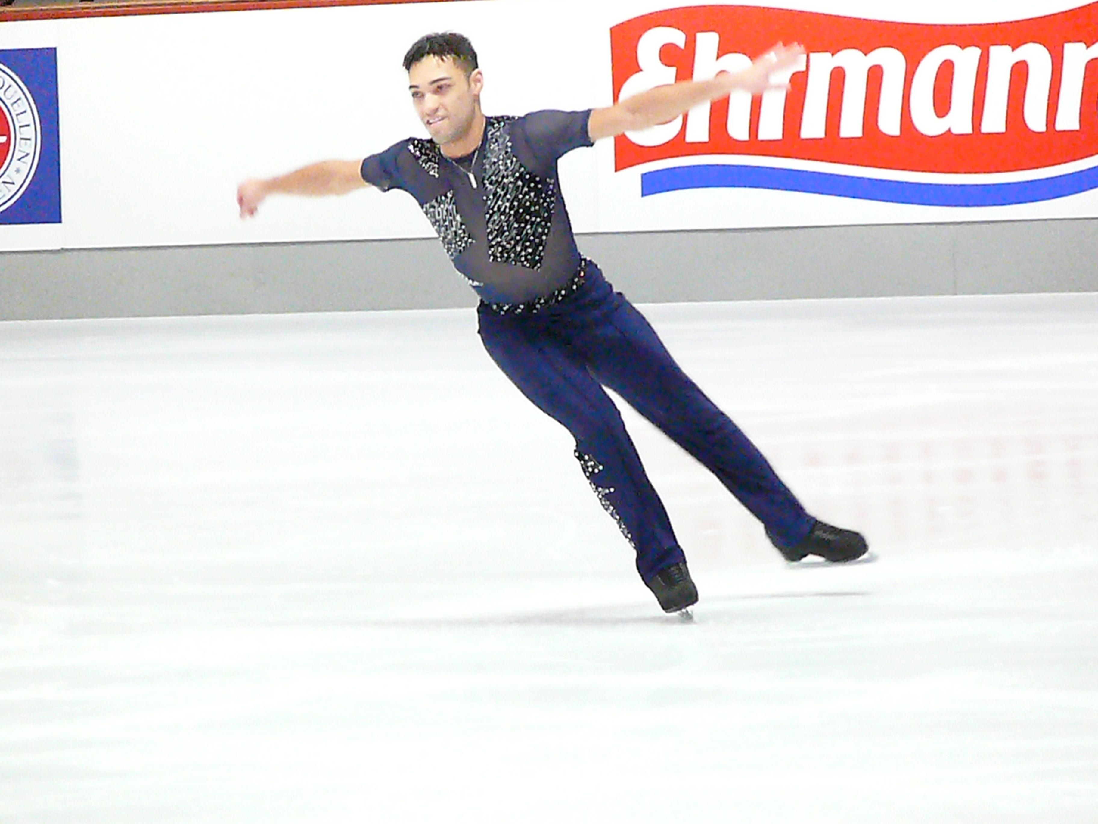 Derrick Delmore at the Nebelhorntrophy in Oberstdorf/Germany 2007